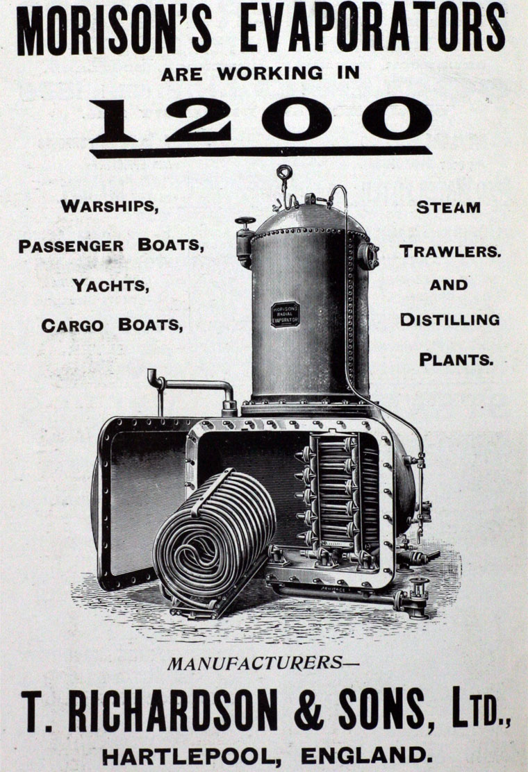 Advertisement for Morison's Evaporator